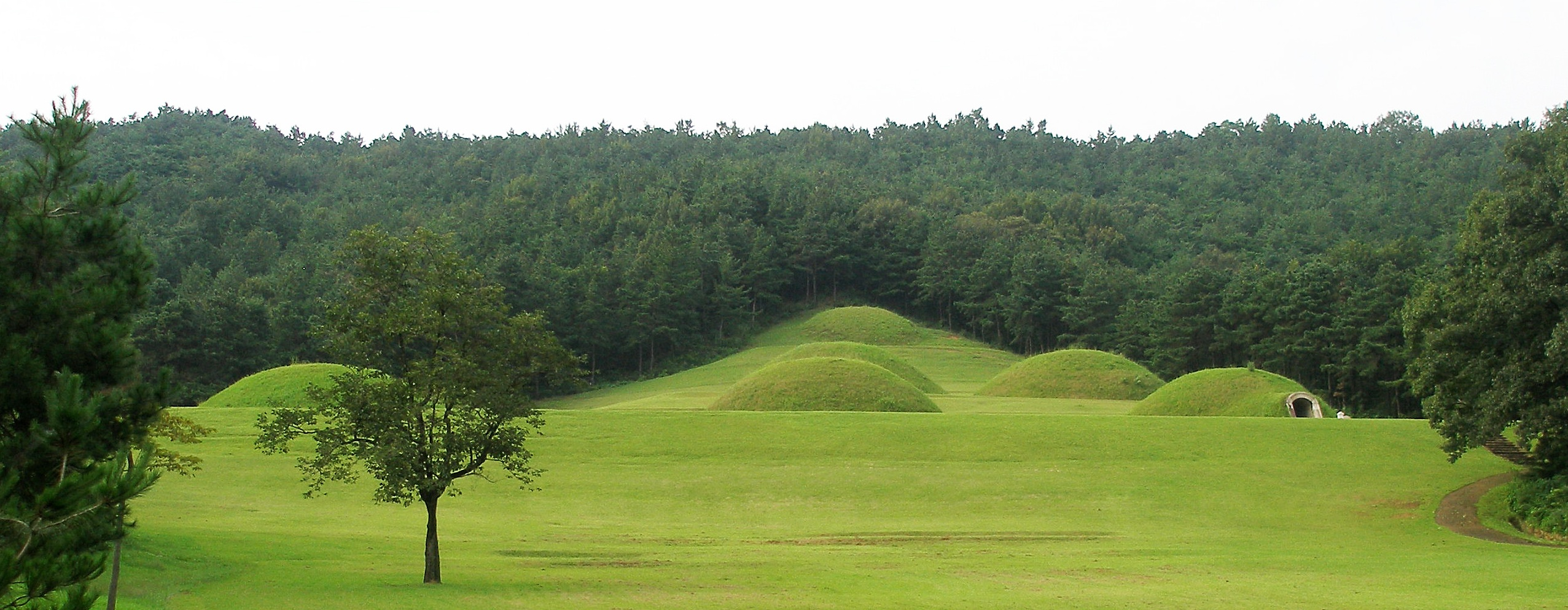 Tombs in Neungsan-ri, Buyeo, Korea